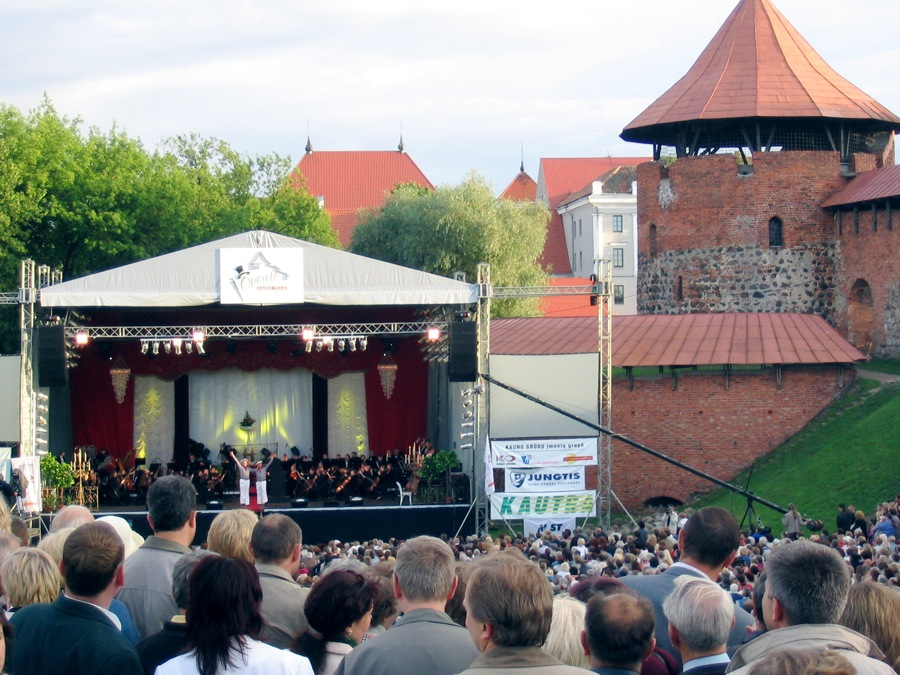 Opera at the Kaunas Castle.